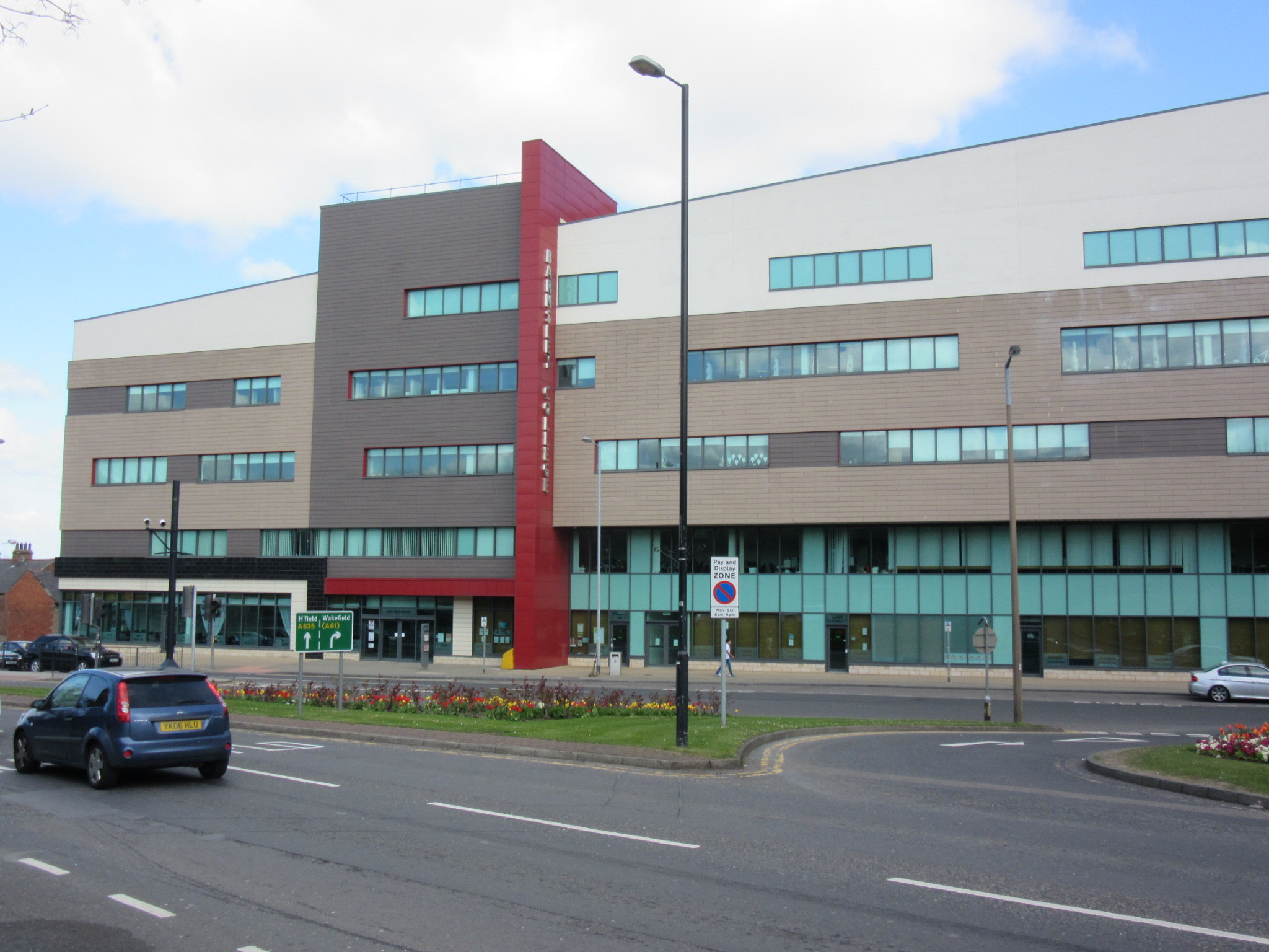 Barnsley College